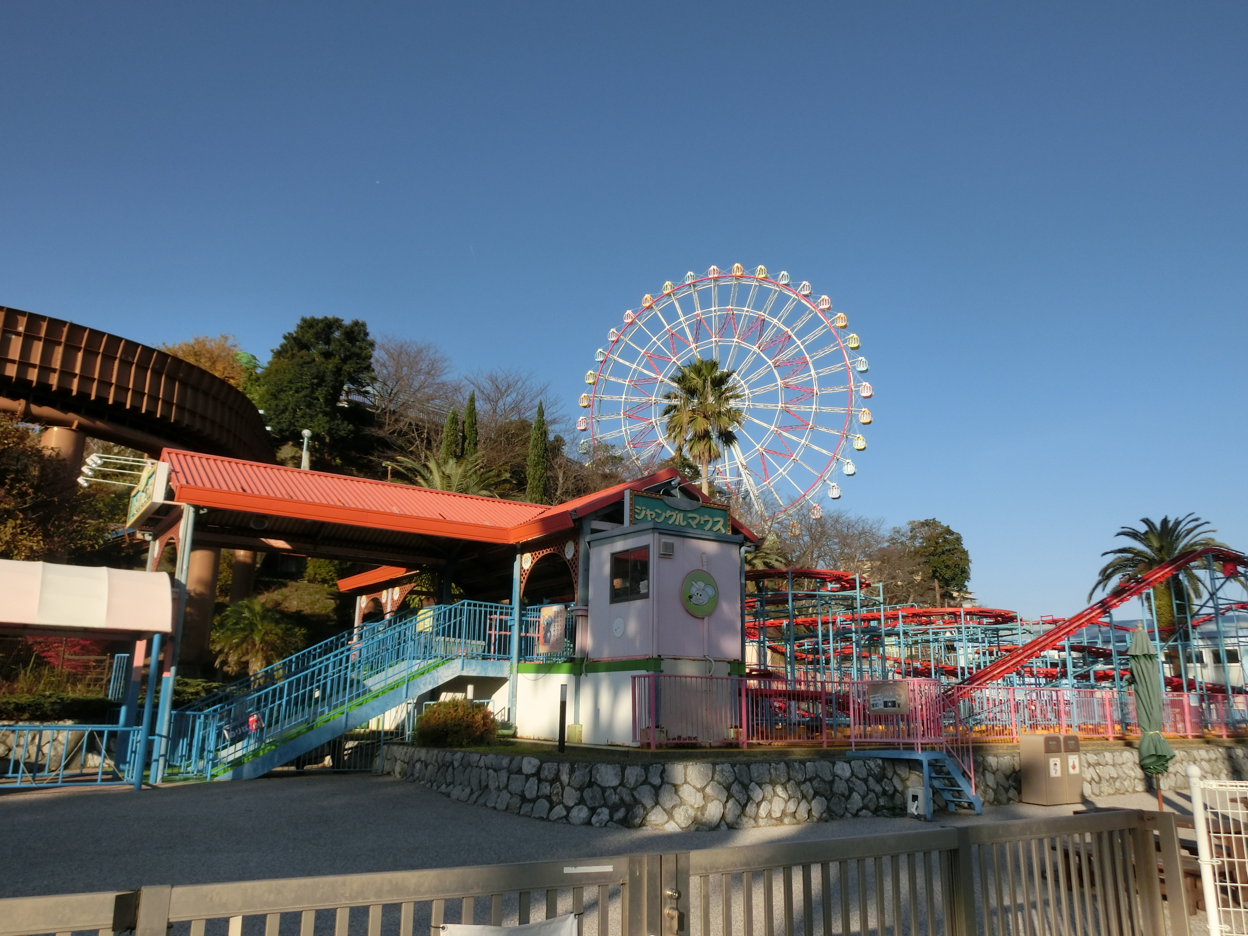 Hamanako Palpal